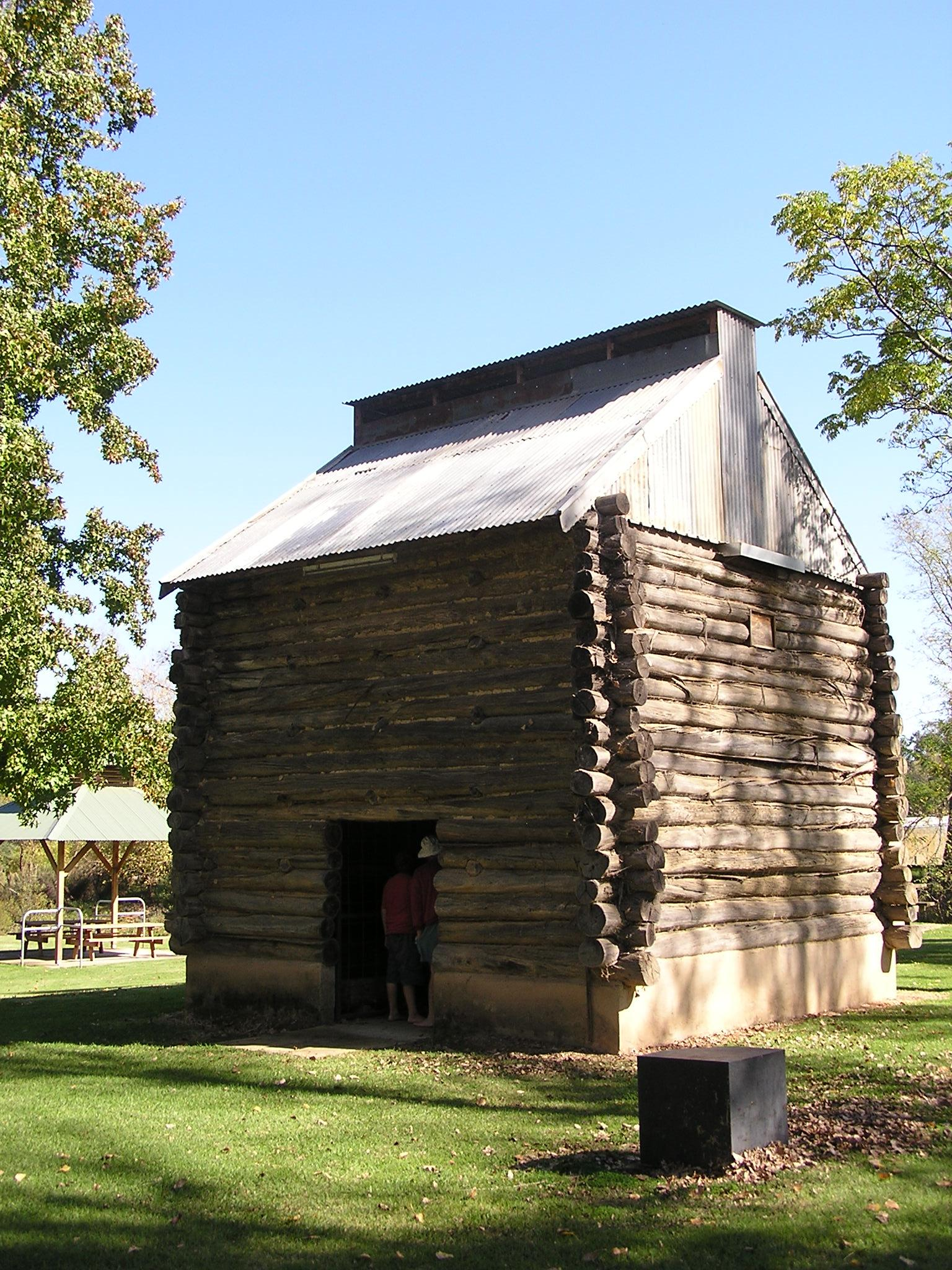 A Tobacco drying hut at Myrtleford, Victoria, Australia. This historic tobacco kiln in Rotary Park is typical of those built in the area from the 1930s to the 1960s. This kiln was built in 1957. It was moved to the park in 2000. Picture taken by AYArktos